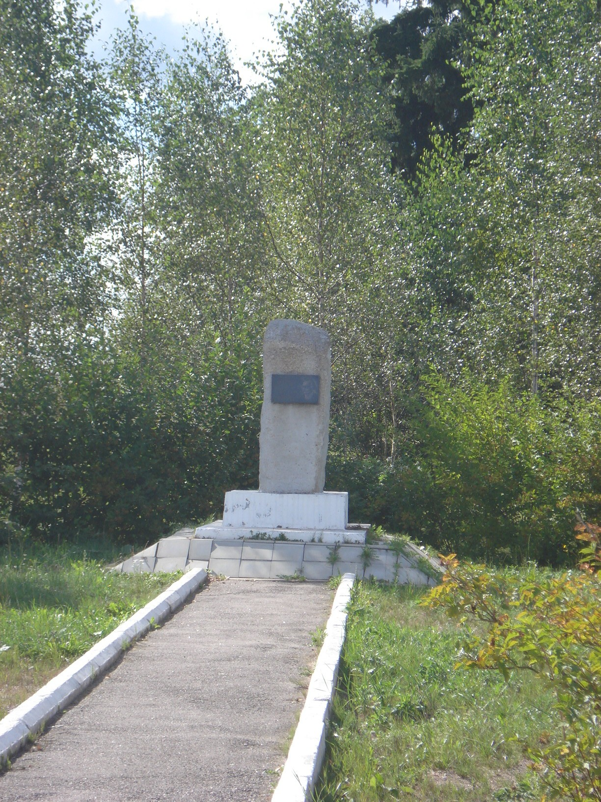 Verhovinino village, a monument to the writer Vasilyev.